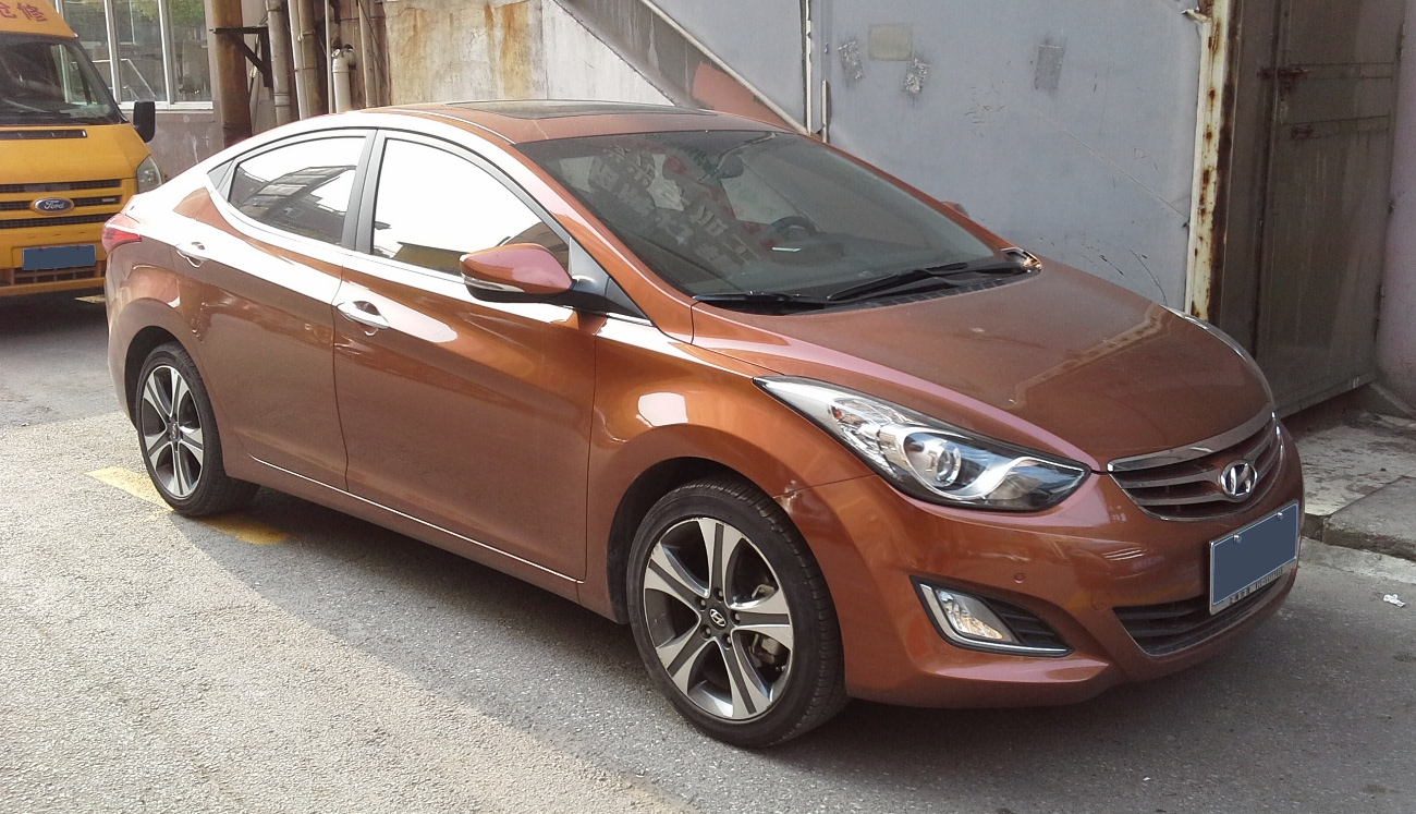 Hyundai Elantra Langdong photographed in Shanghai, China.